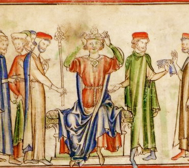 King Harold II places the crown on his own head. (Cambridge University Library, Ee.3.59, fo. 30v)